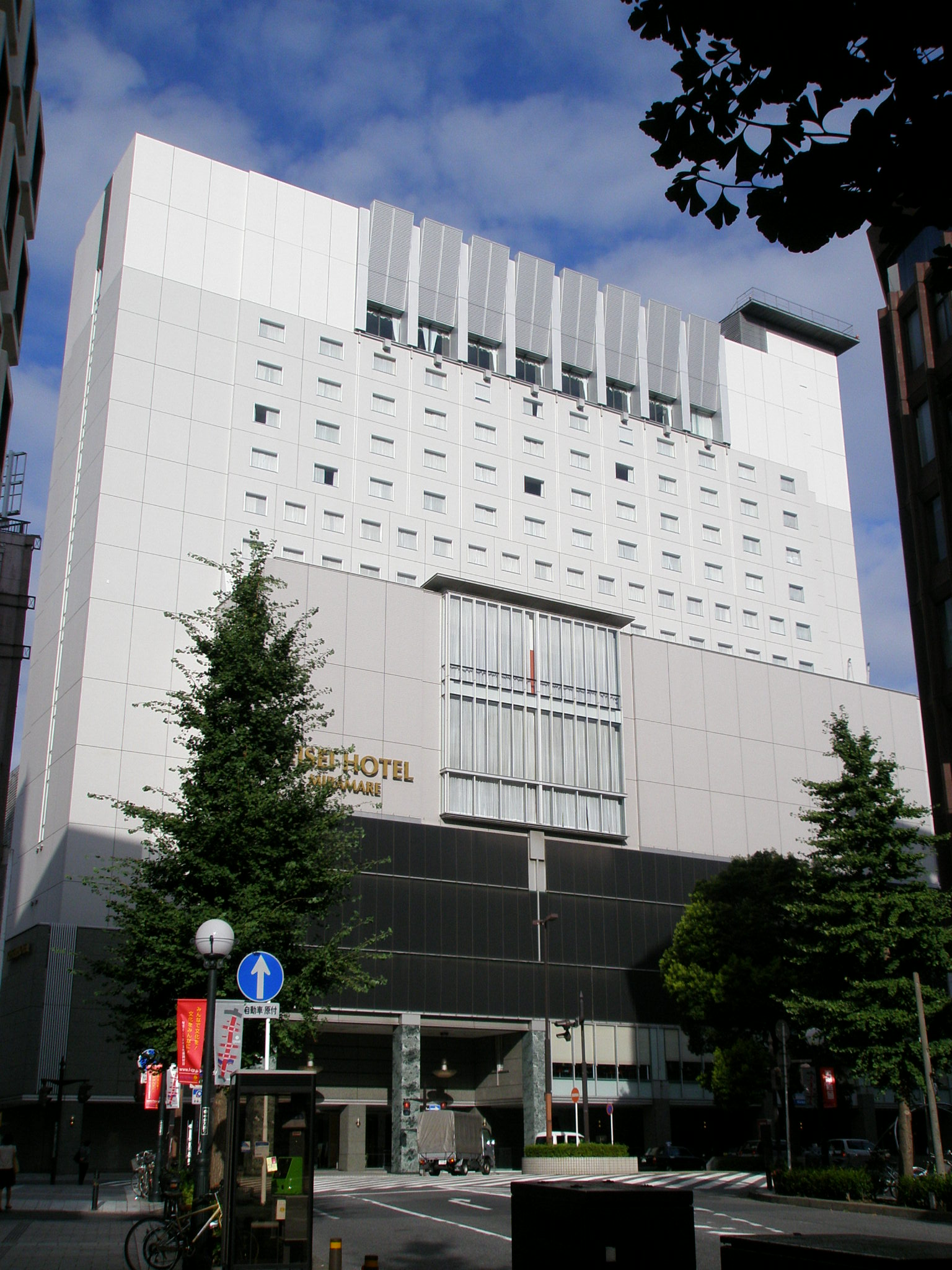 Keisei Hotle Miramare, and as Chiba-Chūō Station east side